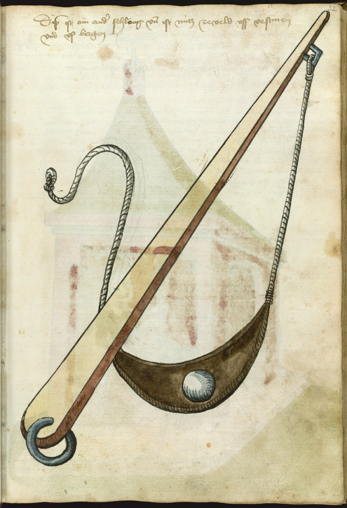 The Ms.Thott.290.2º is a fencing manual written in 1459 by Hans Talhoffer for his own personal reference and illustrated by Michel Rotwyler.